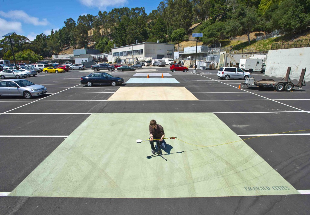 Lawrence Berkeley National Laboratory's Heat Island Group has converted a portion of a new temporary parking lot at Berkeley Lab into a cool pavement exhibit. For more information or additional images, please contact 202-586-5251.